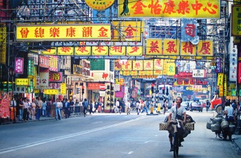 a photo showing that night clubs and sexual agencies are mixed with other shops and residential buildings.